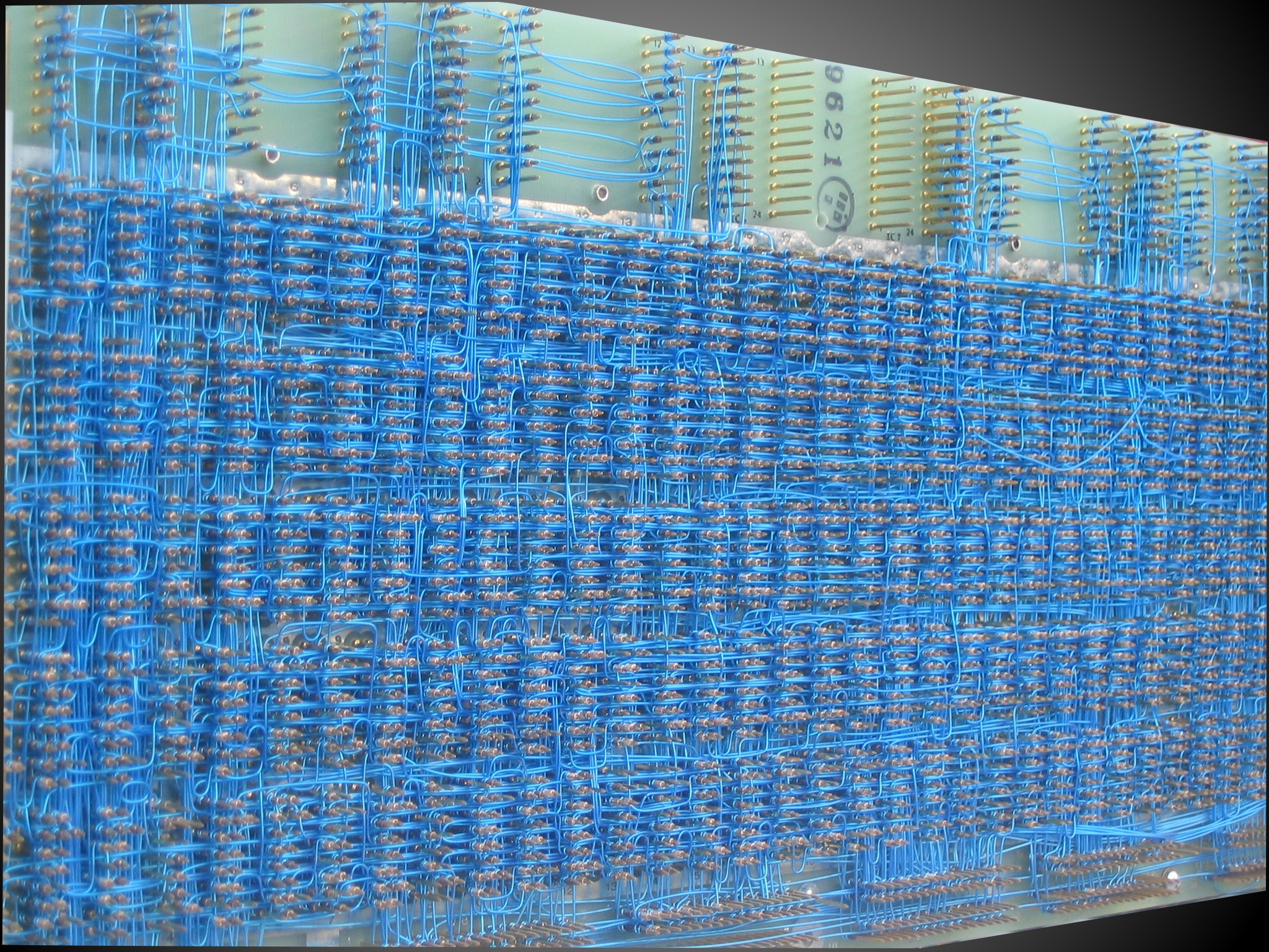 Mother card with wrapping for 440A Nicolet spectrum Analyser circa 1975